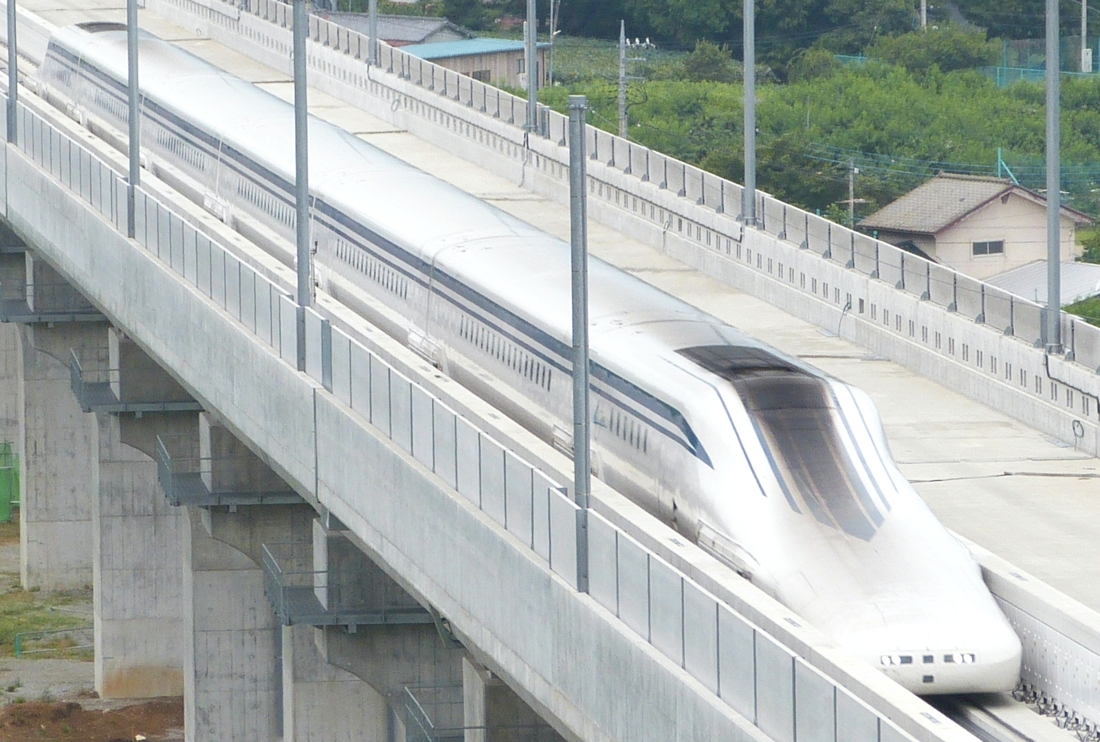 A 7-car L0 series maglev shinkansen formation undergoing test-running on the Yamanashi Test Track